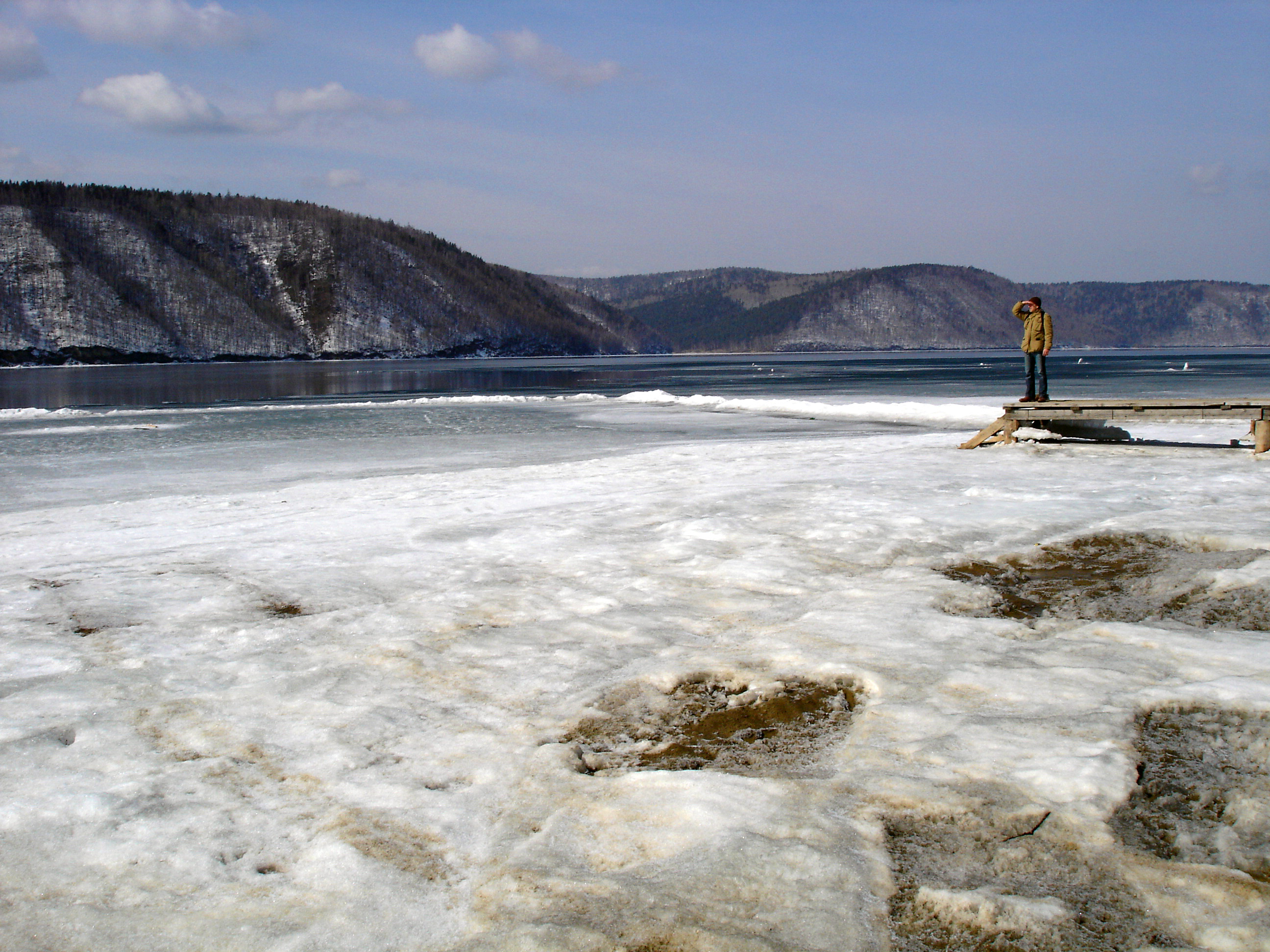 River Angara at Talzy close to Lake Baikal